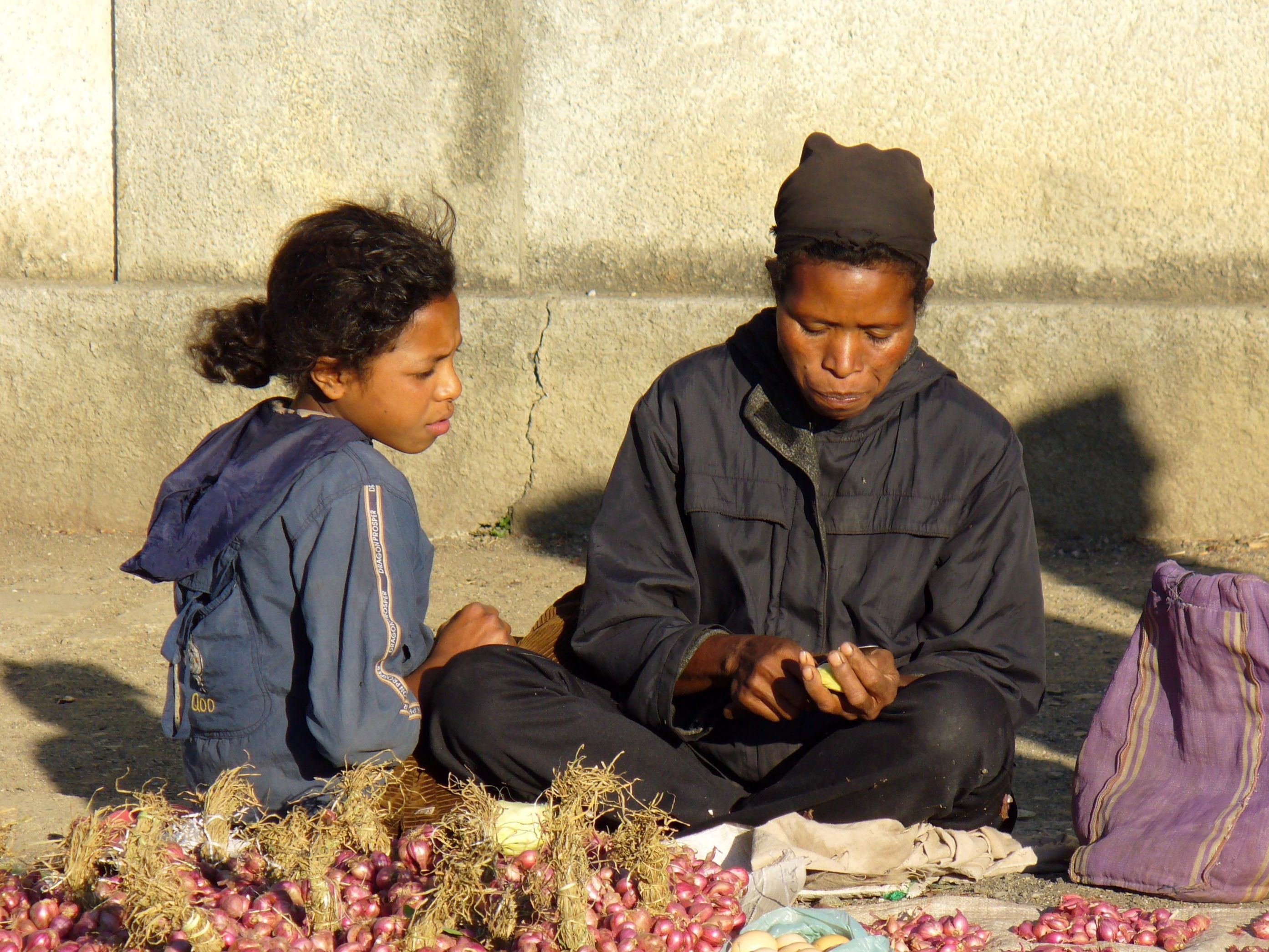 Market, Maubisse, East Timor